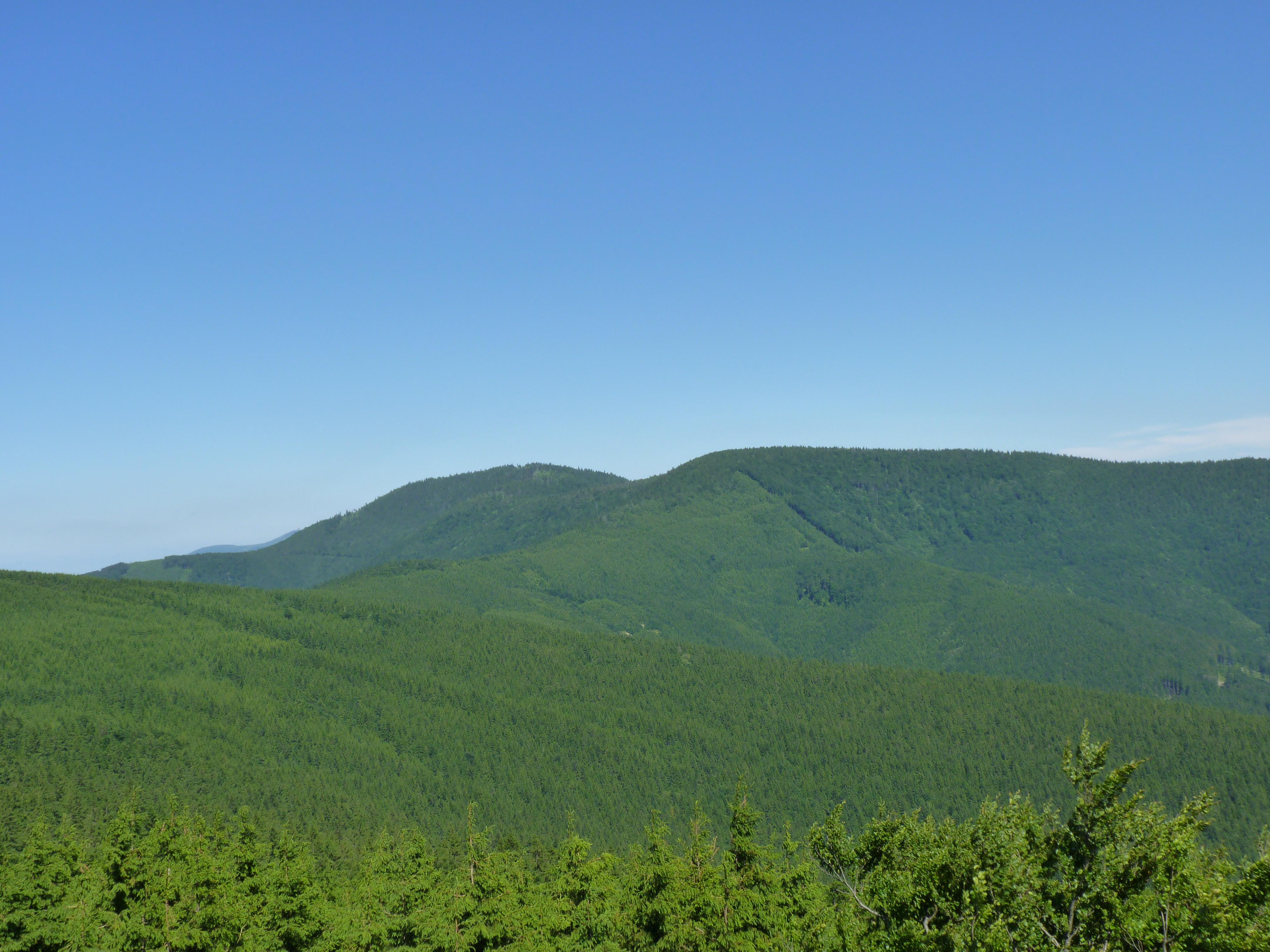 Moravian-Silesian Beskids, Czech Republic